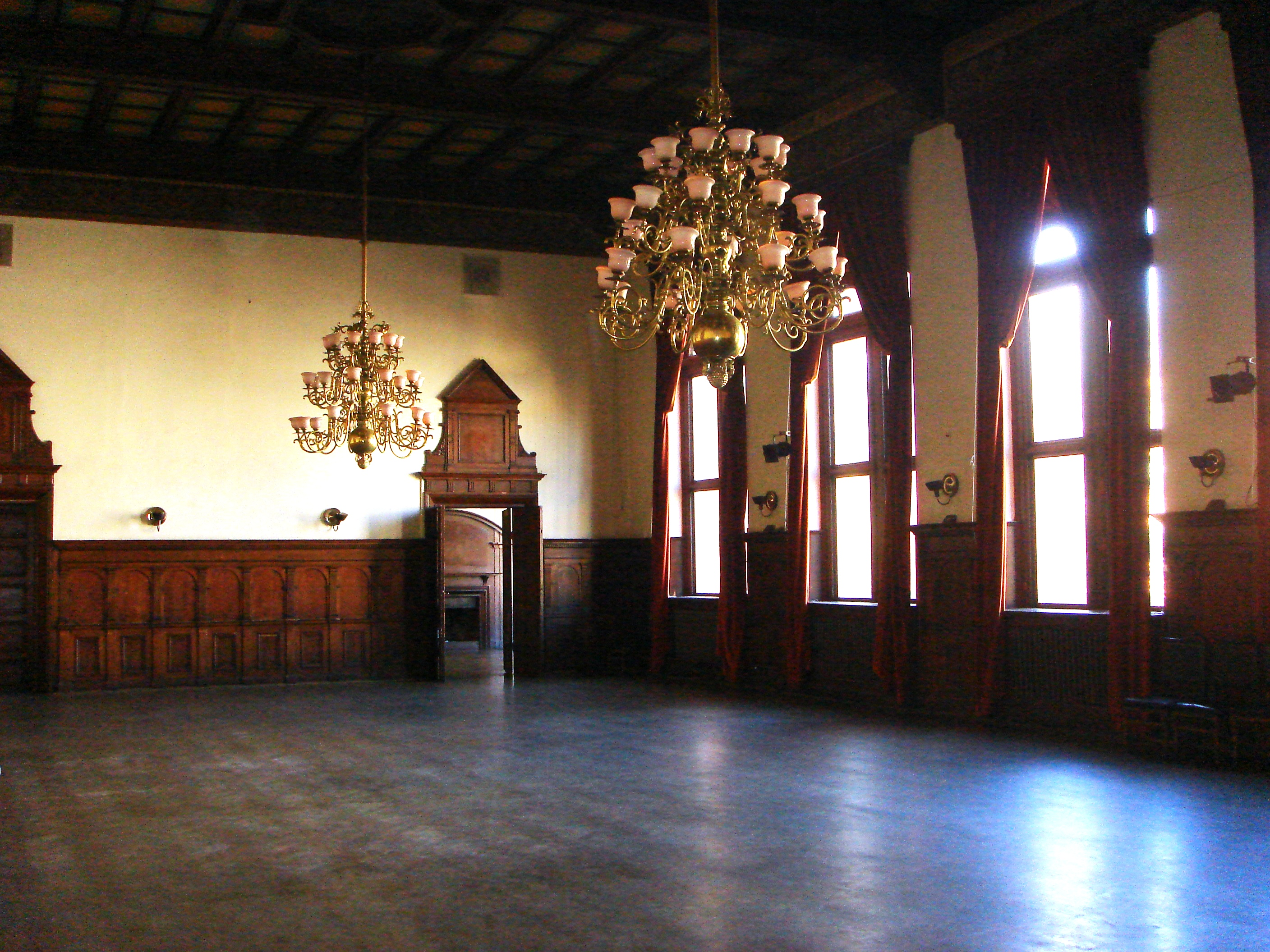 Norrlands nation. Old building, dinner hall. Uppsala universitet. Photo.